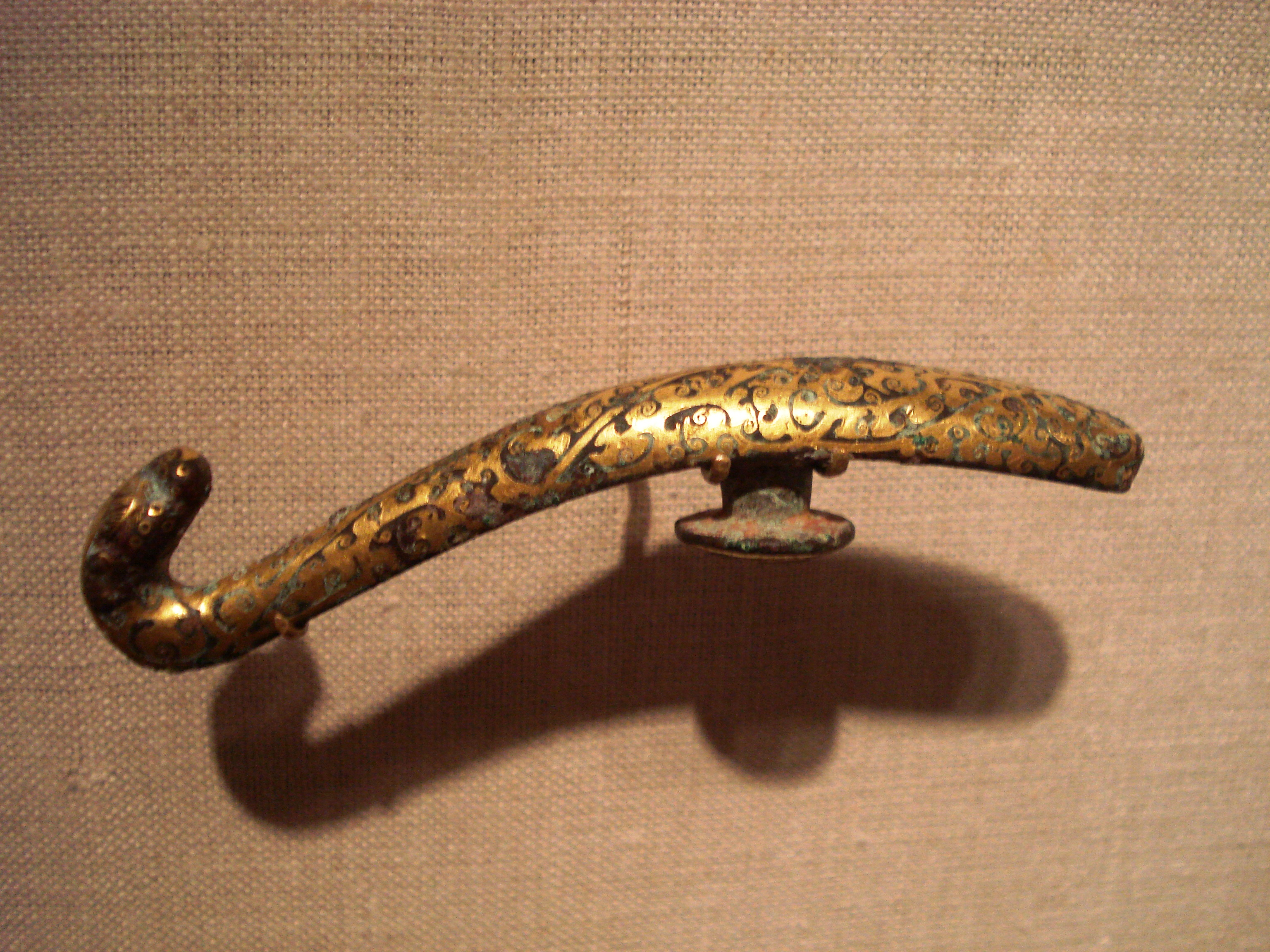 A Chinese bronze belt hook inlaid with gold, from the Western Han Dynasty (202 BC – 9 AD).